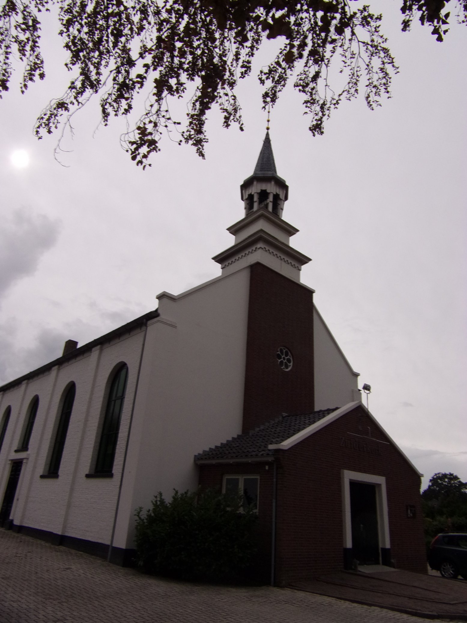 Nieuw-Amsterdam, Netherlands, Zuiderkerk, front